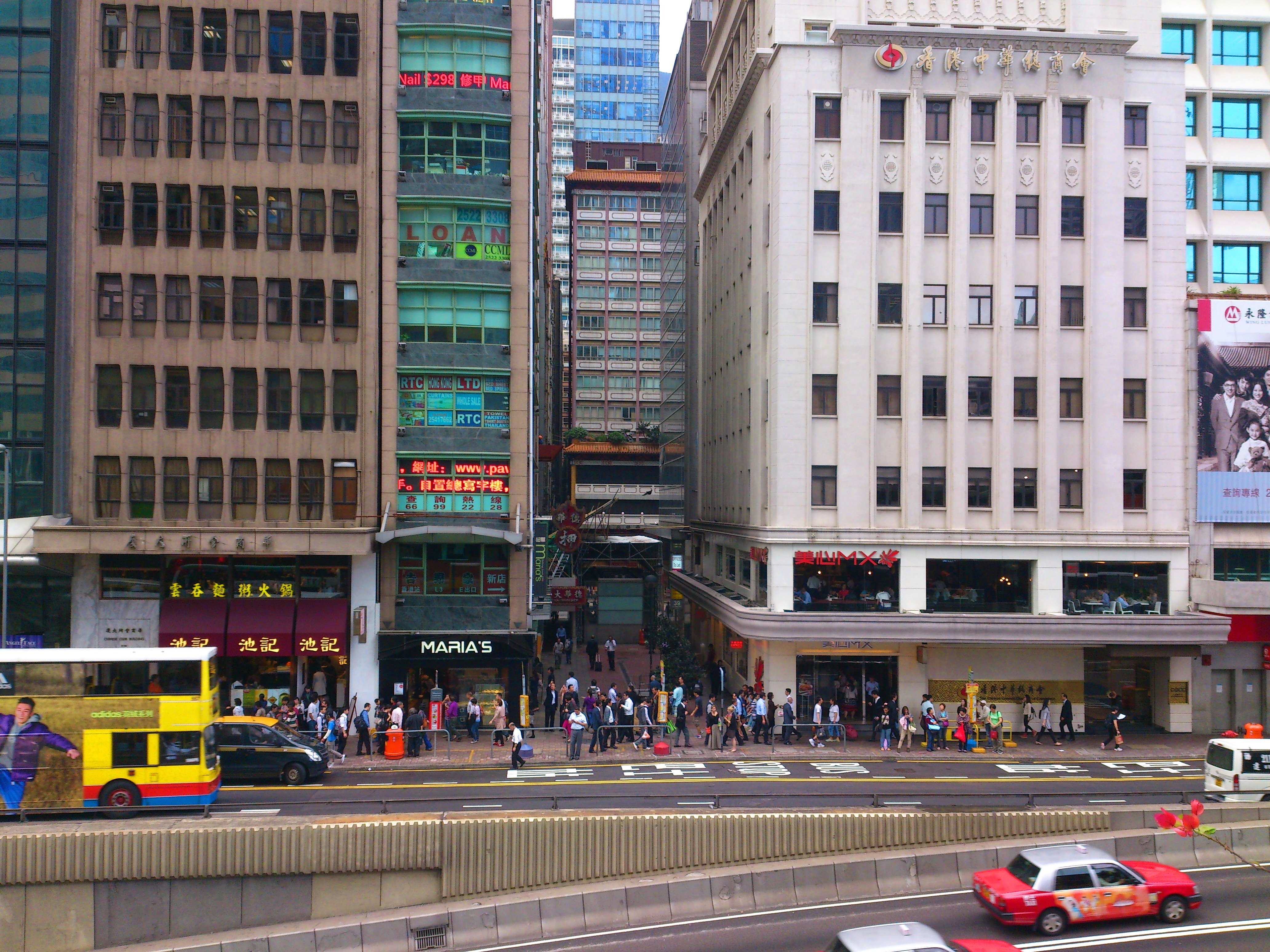 Doualas Street near CGCC Building